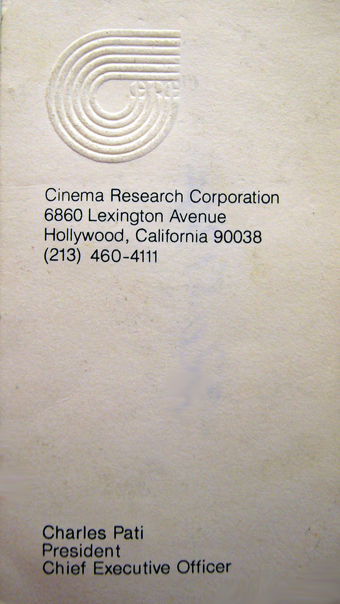 An old business card from a now out of business, defunct company. The person whose name appears on the card has been deceased for 17 years.